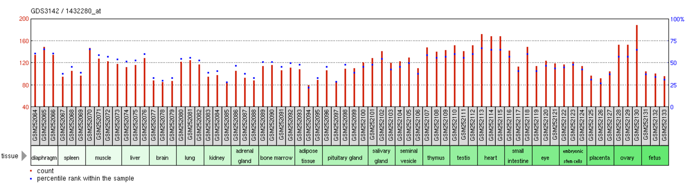 This is a microarray expression profile of PRR29 that was done in mice.